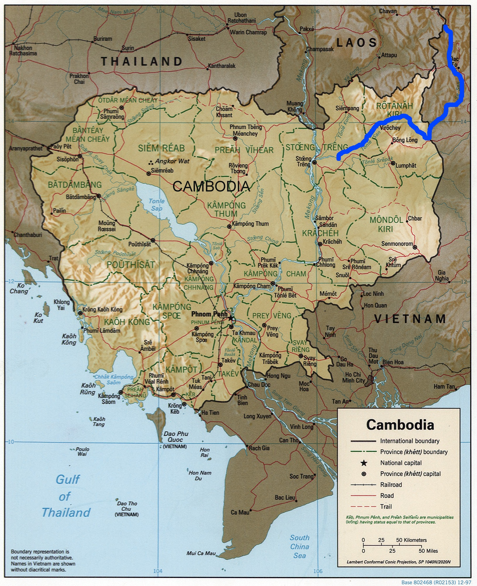 Map of the Tonle San river — in Gia Lai and Kon Tum Provinces of Cambodia. Tributary of the Mekong.